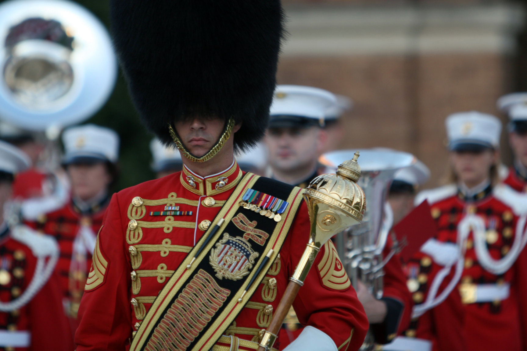 WASHINGTON (Aug. 21, 2008) A drum major in "The President's Own" United States Marine Band prepares to report to the parade commander during a parade at Marine Barracks Washington. The President's Own performs in more than 500 ceremonies and concerts across the country annually. (U.S. Marine Corps photo by Lance Cpl. Chris Dobbs/Released)